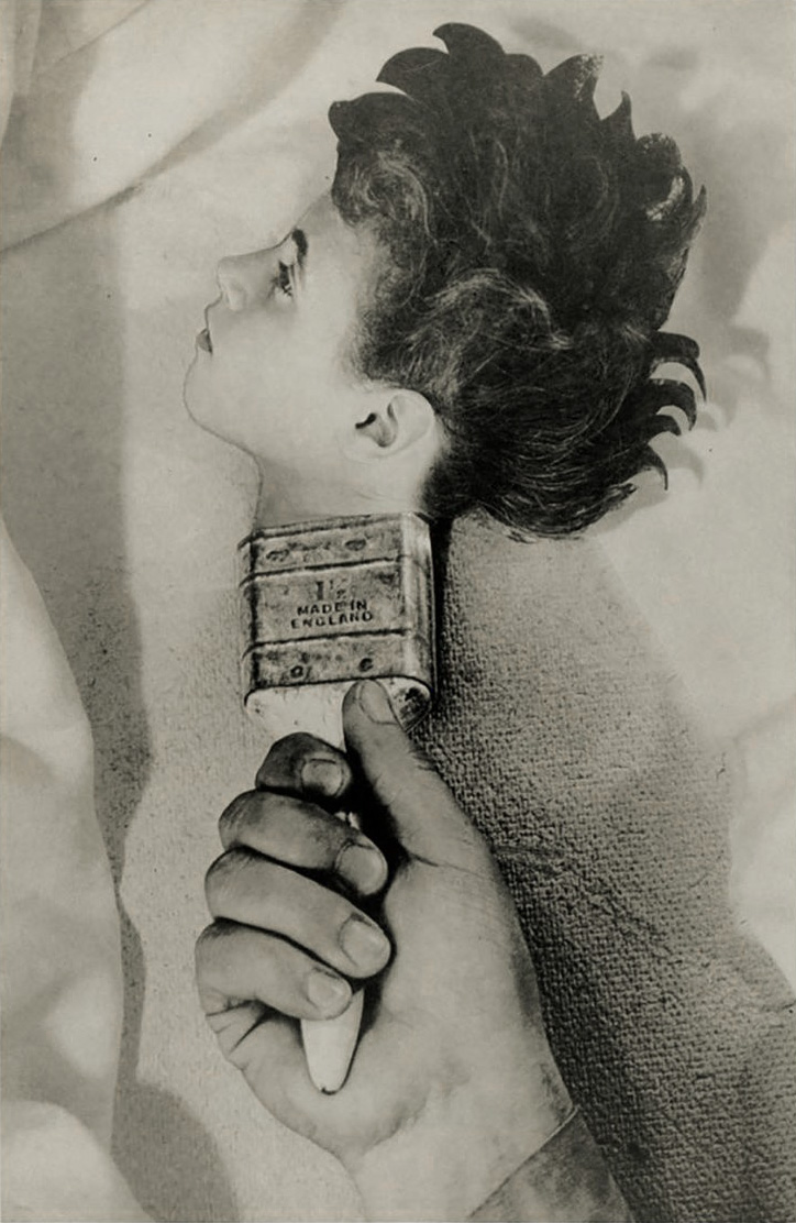 Grete Stern (1904-1999): Sueño No. 31: Made in England. 1950. Gelatin silver print. 19 11/16 × 13 3/16″ (50 × 33.5 cm)